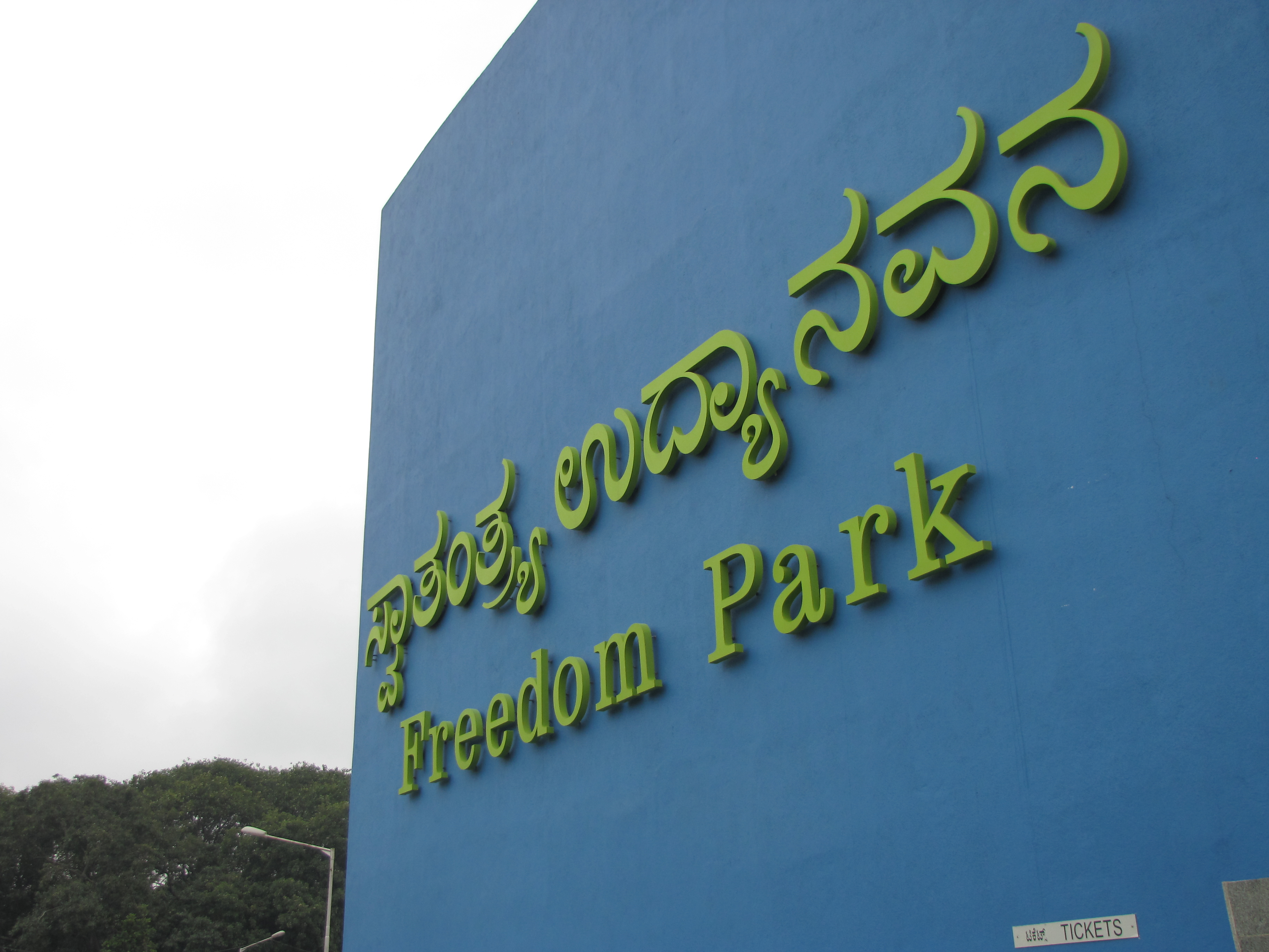 Entrance to Freedom Park, Bangalore